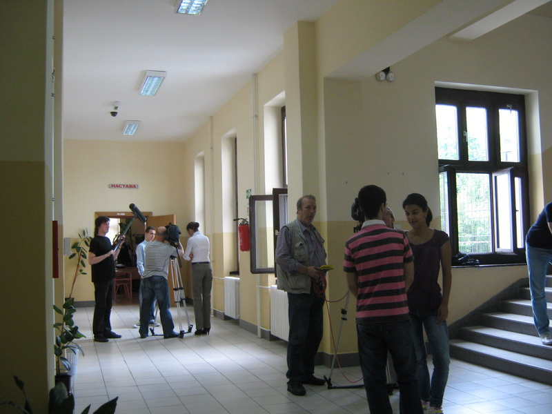 Mr. Michael O'Sullivan, Director of the Cambridge Commonwealth Trust paid visit to Mathematical Gymnasium Belgrade.[92] Mr. O'Sullivan's was greeted by the Principal of Mathematical Gymnasium Belgrade, Mr Srdjan Ognjanovic, prof. dr Zoran Kadelburg who is professor of Mathematical Analysis at Mathematical Gymnasium Belgrade and full professor and former Dean of Faculty of Mathematics, University of Belgrade, and MGB students who will continue their education in Cambridge. This event was recorded by the Radio Television of Serbia.